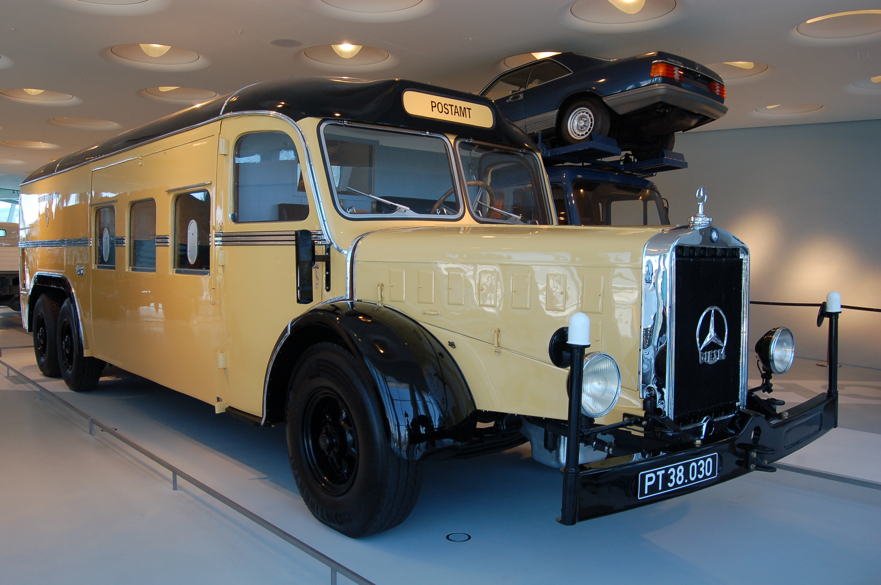 A mobile post office of the Austrian Post in the Mercedes-Benz Museum in Stuttgart.